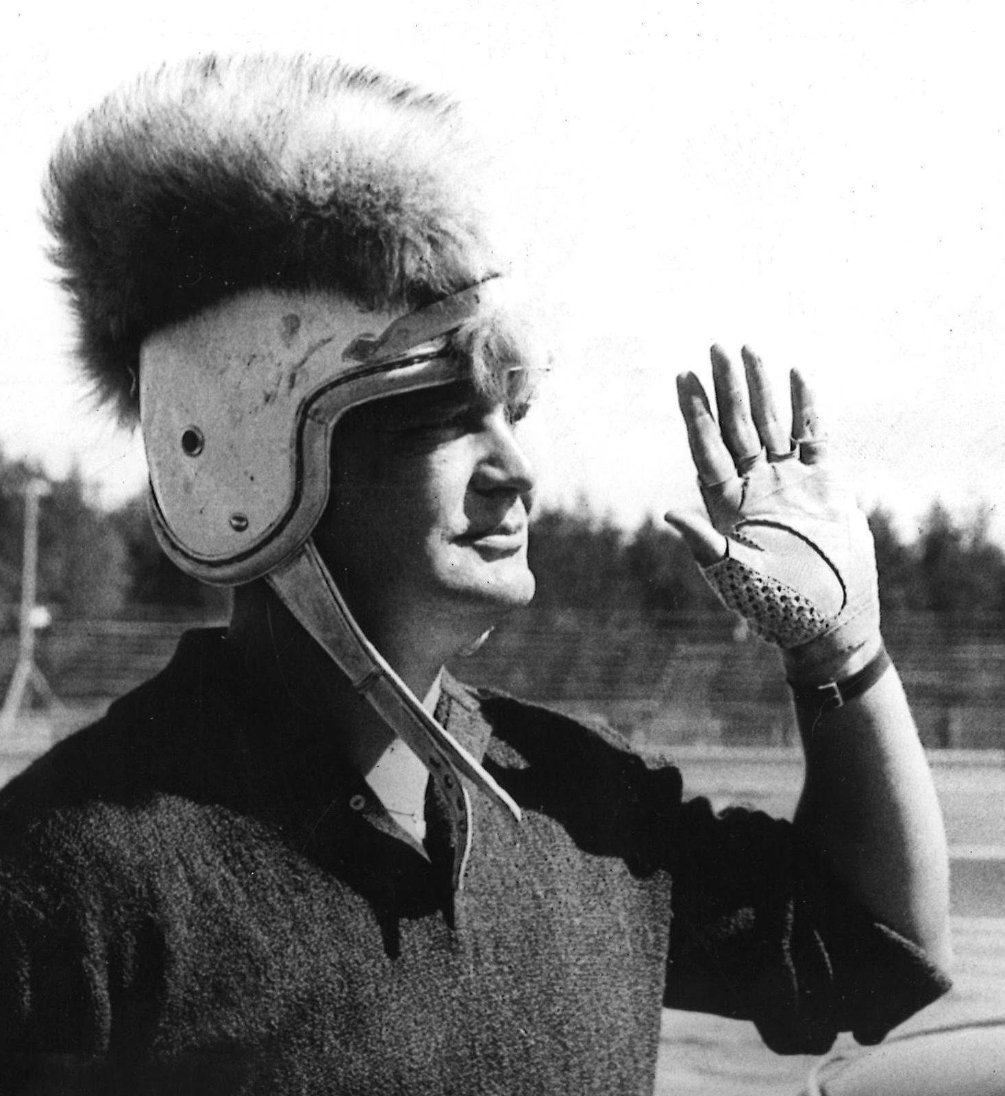 Photograph of the Finnish publisher Urpo Lahtinen (1931–1994) at Keimola racing track.